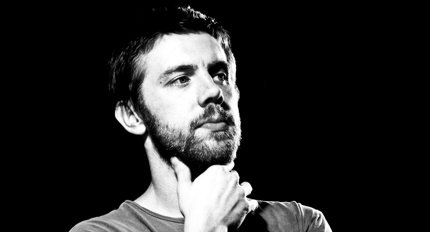 Film director David Bruckner © Michael Gluzman (